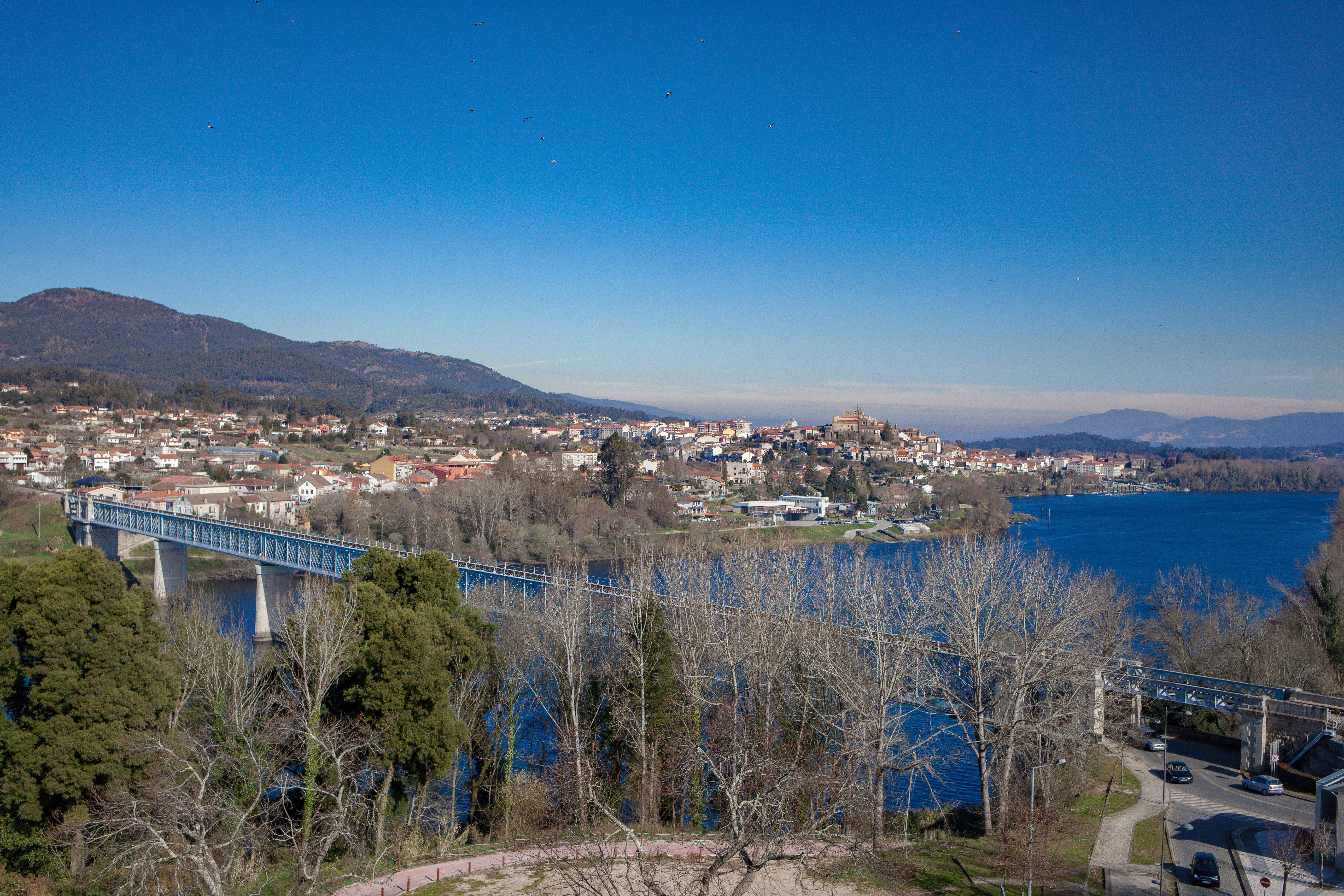 International Bridge of Tui Valença.